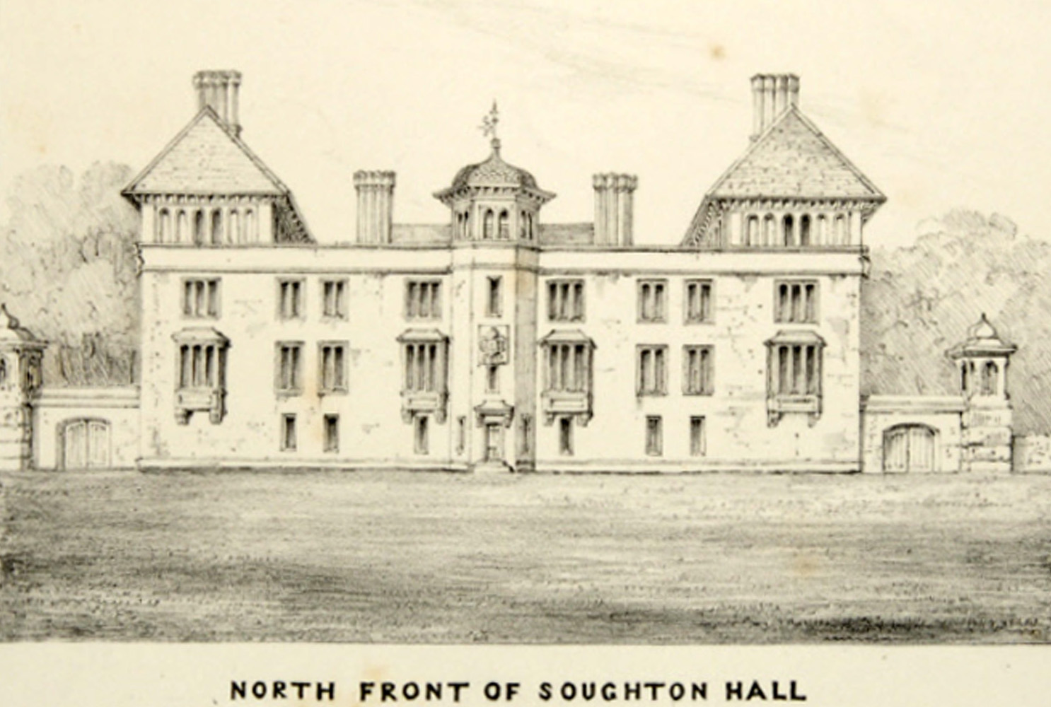 Engraving of the North Front of Soughton Hall, Wales in about 1830